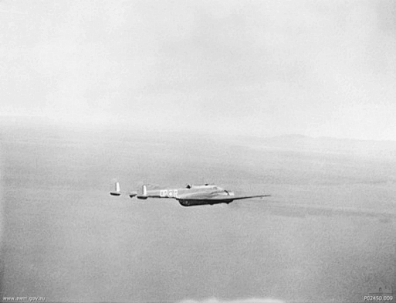 A Handley Page Hampden from No. 32 Operational Training Unit RCAF (code OP-R) in flight in January 1943. Note: The AWM describes this aircraft as a Hampden of No. 489 Squadron (NZ), which had the code letters "XA", and not "OP".